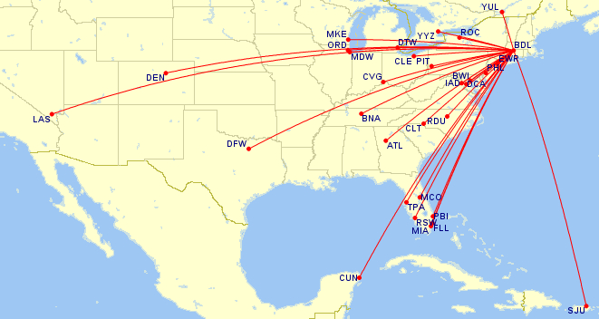 Nonstop passenger service to/from Bradley International Airport, Hartford, CT/Springfield, MA. (as of July 30, 2012)